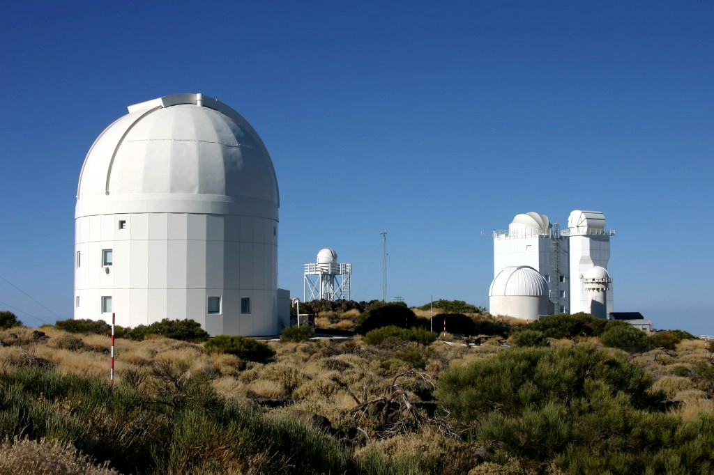 ESA Optical ground Station (left) at the Teide Observatory, Tenerife. In the background at right, the towers of the solar telescopes GREGOR and VTT can be seen.